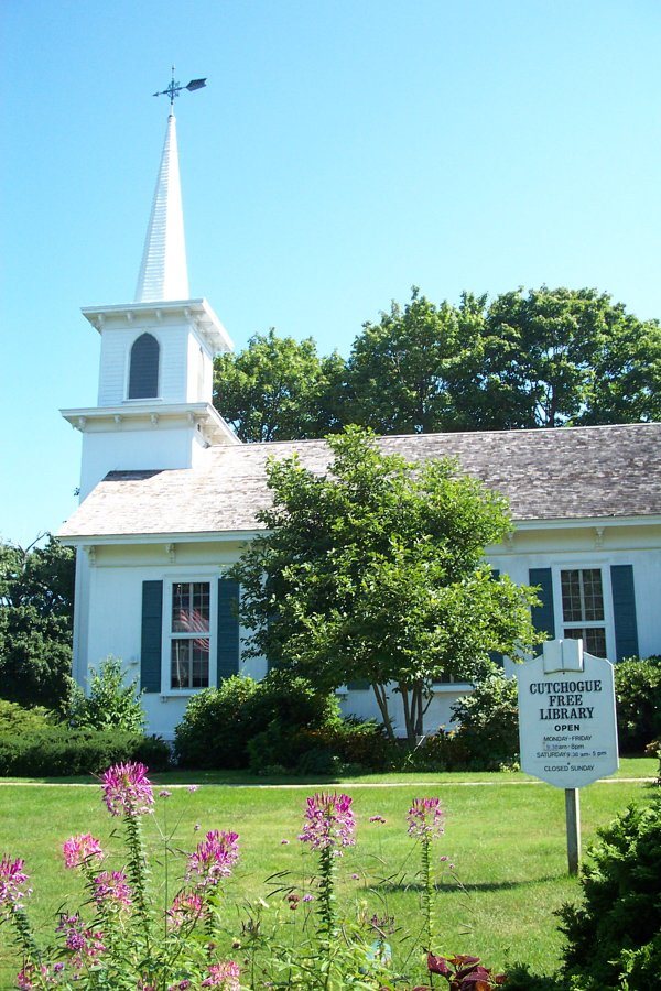 The Cutchogue-New Suffolk Free Library in Cutchogue. Formerly the 1862-built Independent Congregational Church of Cutchogue. See this link for additional details.